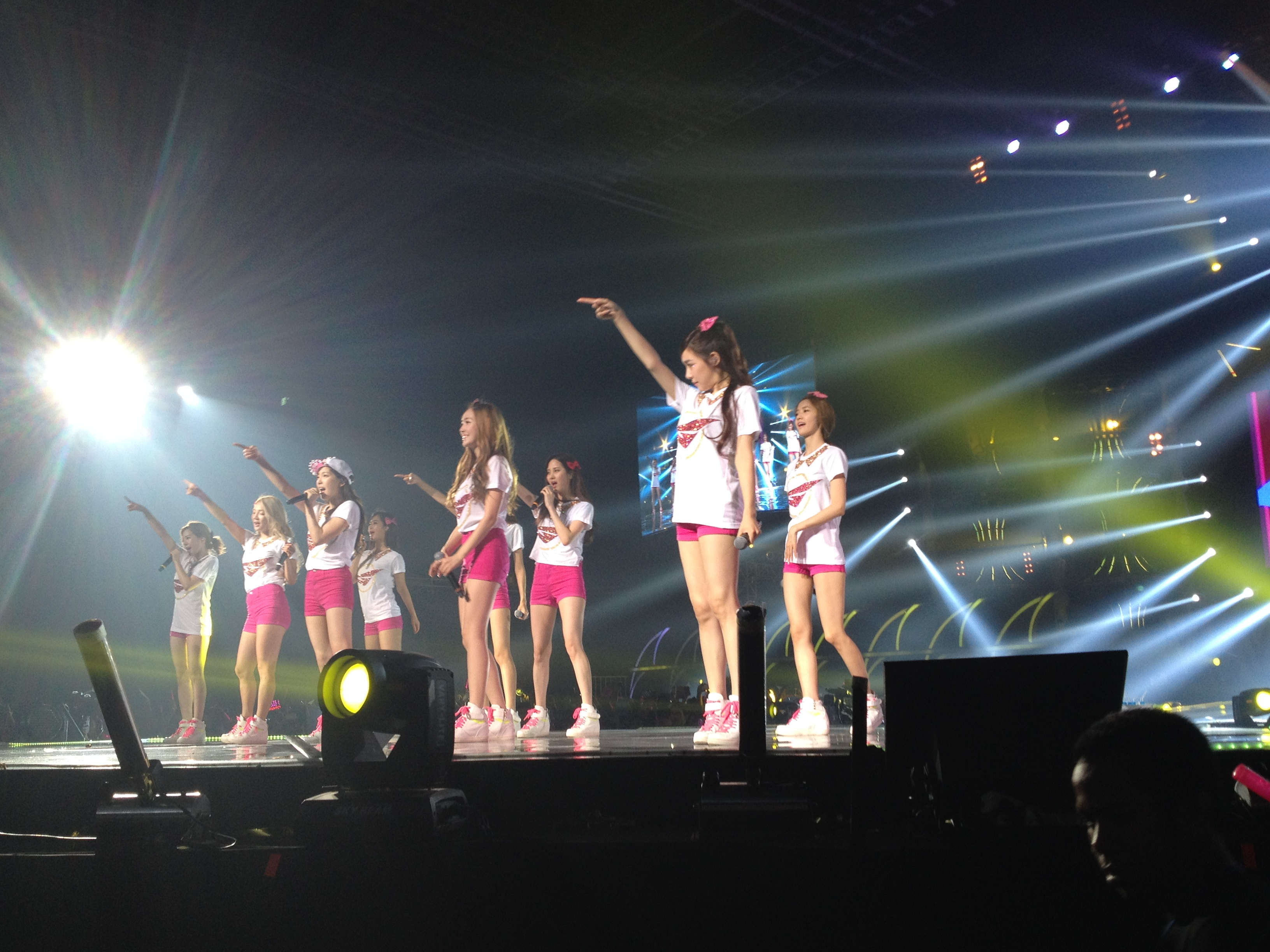 Girls' Generation during "Girls & Peace" World Tour Live in Jakarta